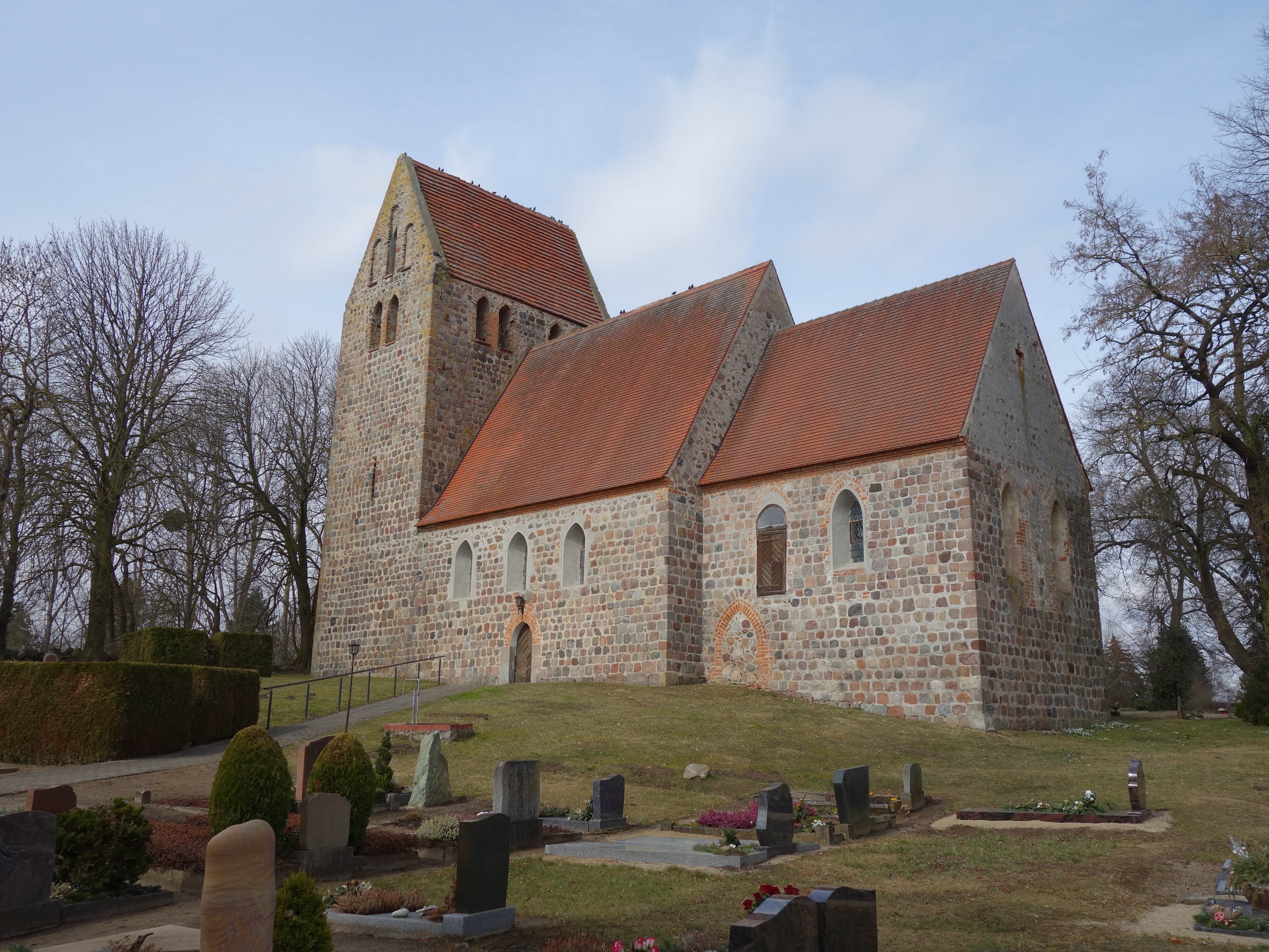 South-eastern view of church in Dedelow, Prenzlau municipality, Uckermark district, Brandenburg state, Germany